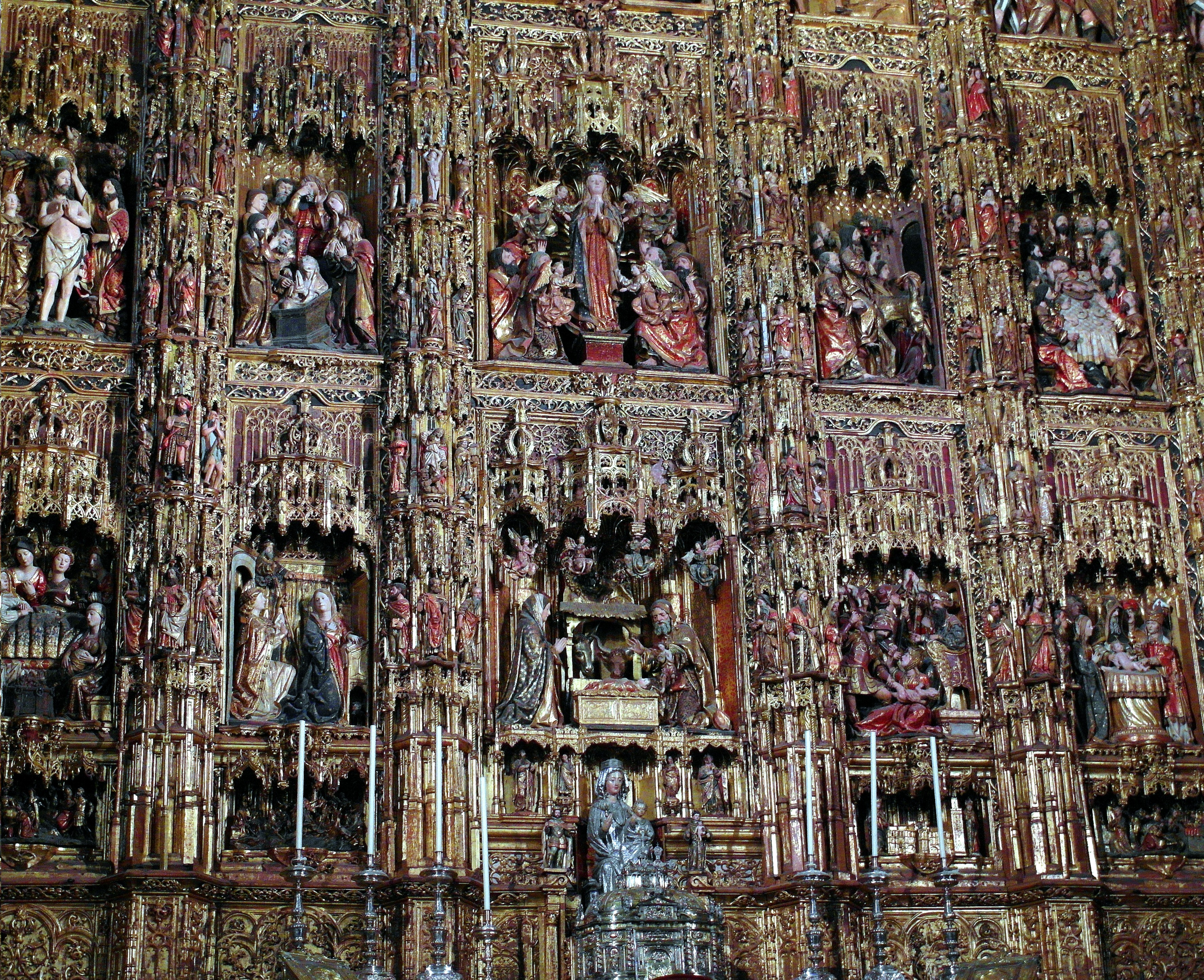 Main altar piece of Cathedral of Seville